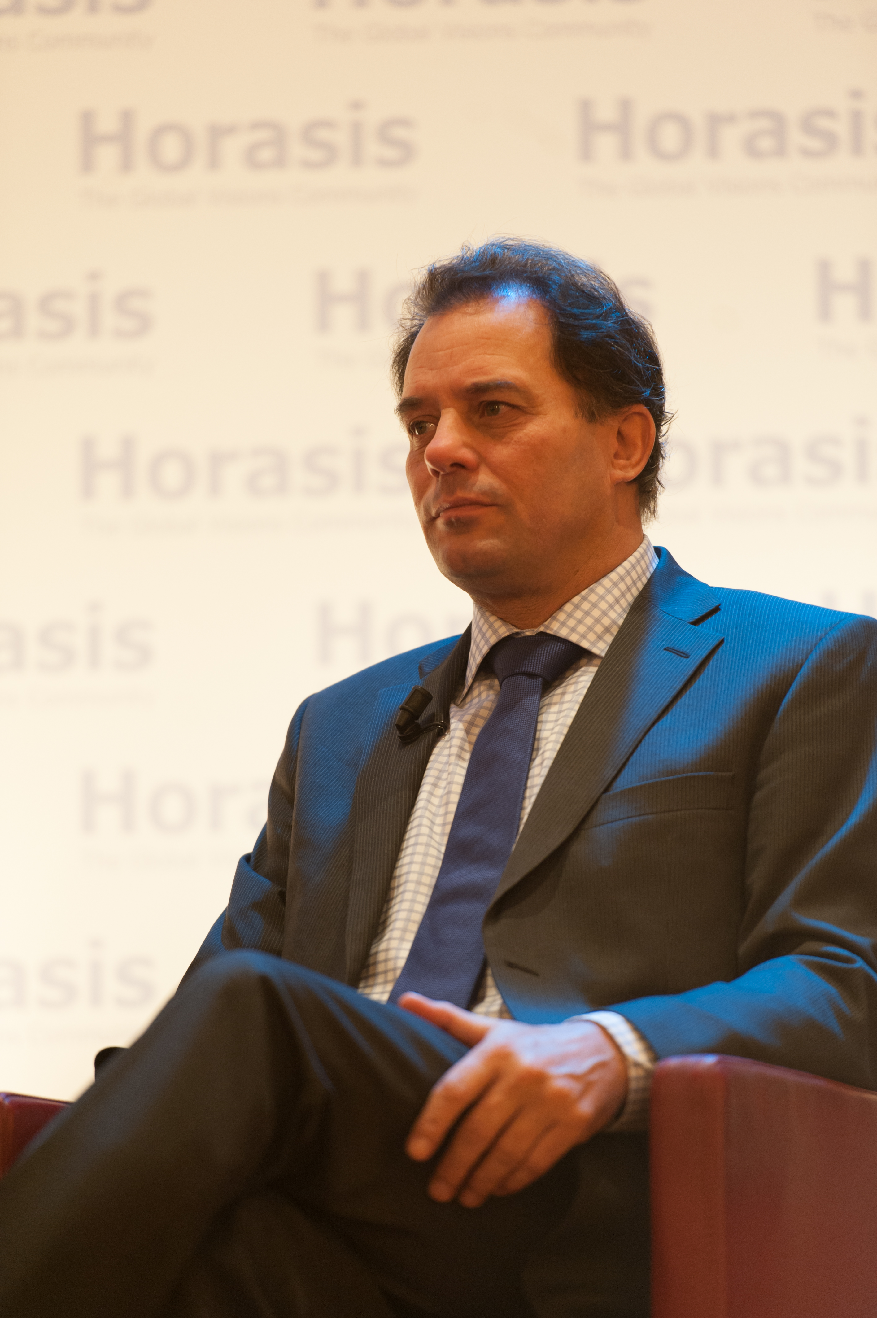 Ben Noteboom, Chief Executive Officer, Randstad Holding, The Netherlands, at the Horasis Global China Business Meeting 2013